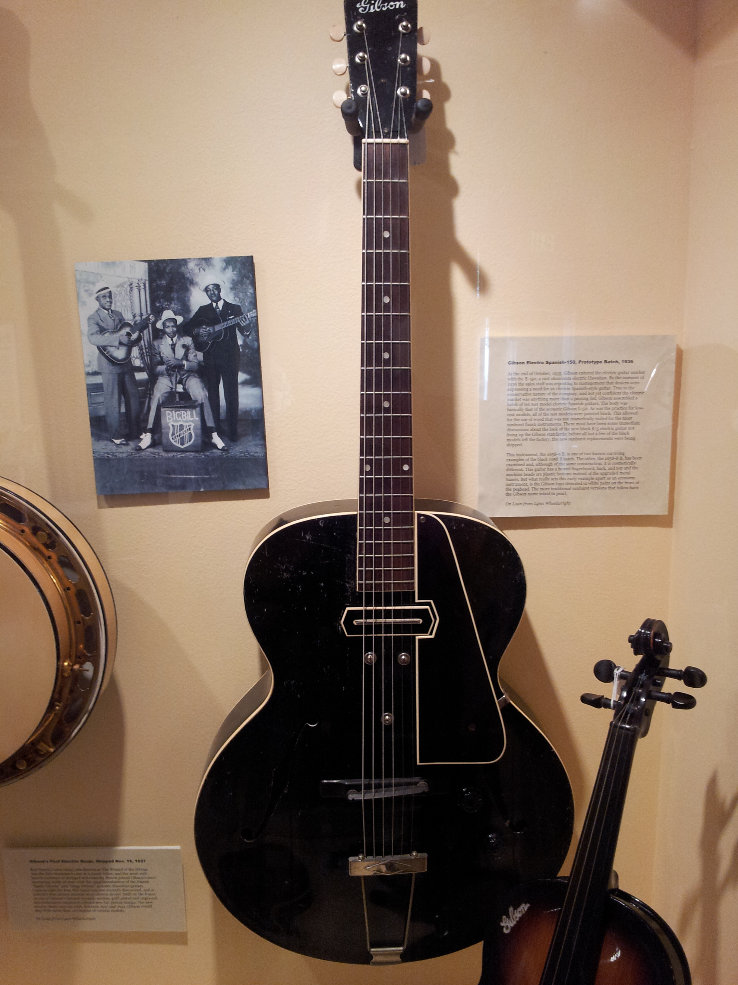 Gibson Electro Spanish-150, Prototype Batch (1936) At the end of October, 1935, Gibson entered the electric guitar market with the E-150, a cast aluminum electric Hawaiian. By the summer of 1936 the sales stuff was reposting to management that dealers were expressing a need for an electric Spanish-style guitar. True to the conservative nature of the company, and not yet confident the electric market was anything more than a passing fad, Gibson assembled a batch of ten test model electric Spanish guitar. The body was basically that of the acoustic Gibson L-50. As was the practice for low- cost models, all of the test models were painted black. This allowed for the use of wood that was not cosmetically suited for the nicer sunburst finish instruments. There must have been some immediate discussions about the look of the new black $75 electric guitar not living up the Gibson standards; before all but a few of the black models left the factory, the new sunburst replacements were being shipped. This instruments, the 1058-9 B, is one of two known surviving examples of the black 1058 B batch. The other, the 1058-8 B, has been examined and, although of the same construction, it is cosmetically different. This guitar has a bound fingerboard, back, and top and the machine heads are plastic buttons instead of the upgraded metal tuners. But what really sets this early example apart as an economy instrument, is the Gibson logo stenciled in white paint on the front of the peghead. The more traditional sunburst versions that follow have the Gibson name inlaid in pearl. On Loan from Lyan Wheeburight